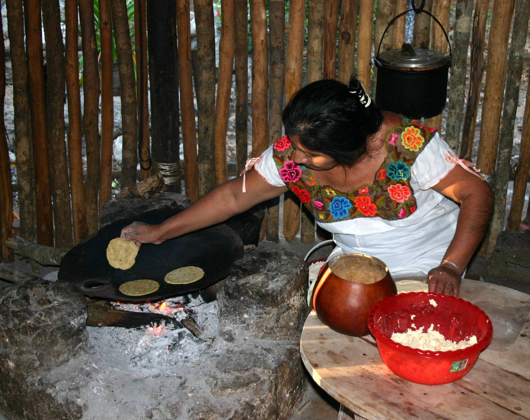 A Mexican woman prepares maize while making tortillas. Tulum and Coba, Yucatan, Mexico.